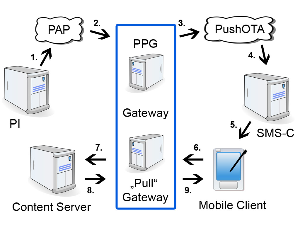 This figure shows a WAP Push Process and the interaction of all instances involved.